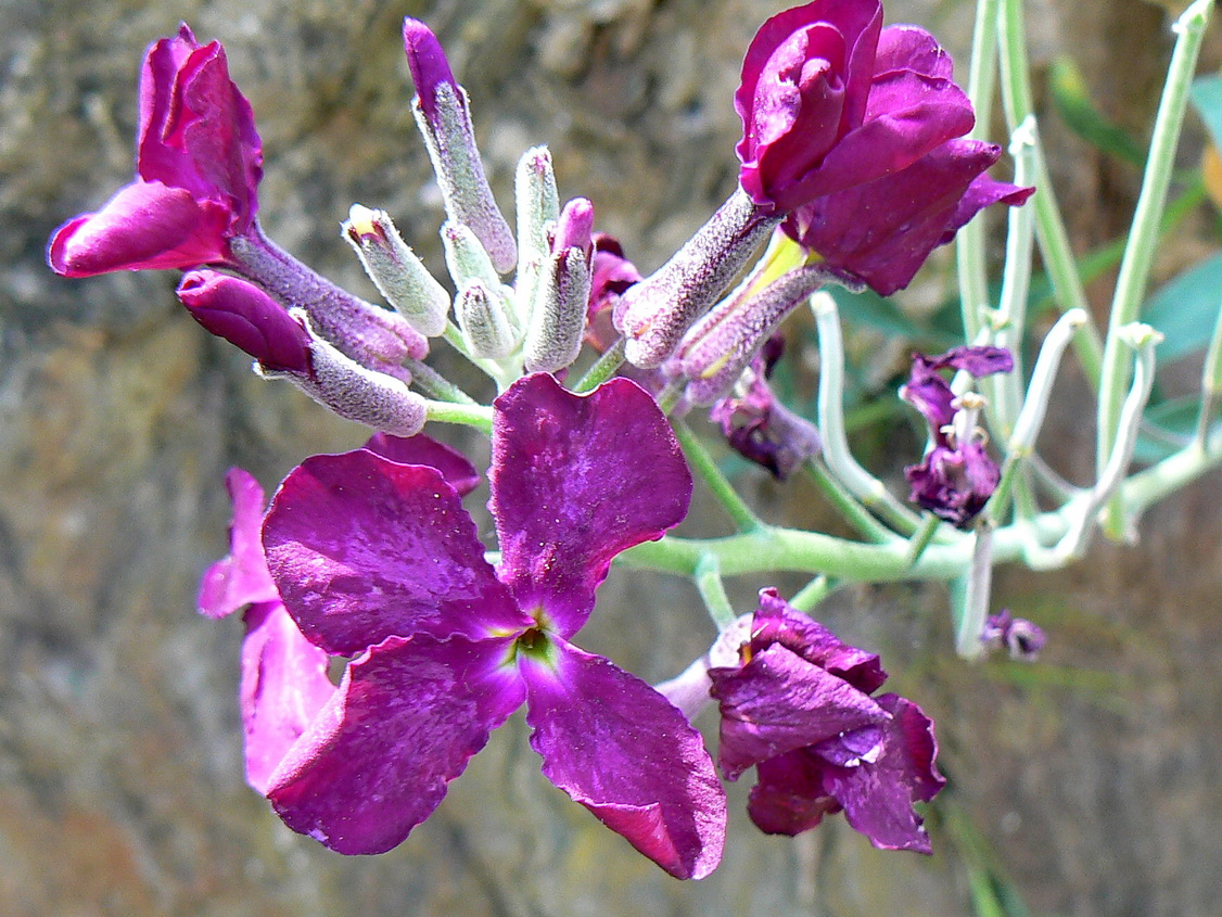 Matthiola incana, Île de Port Cros, France. Detail of flowers